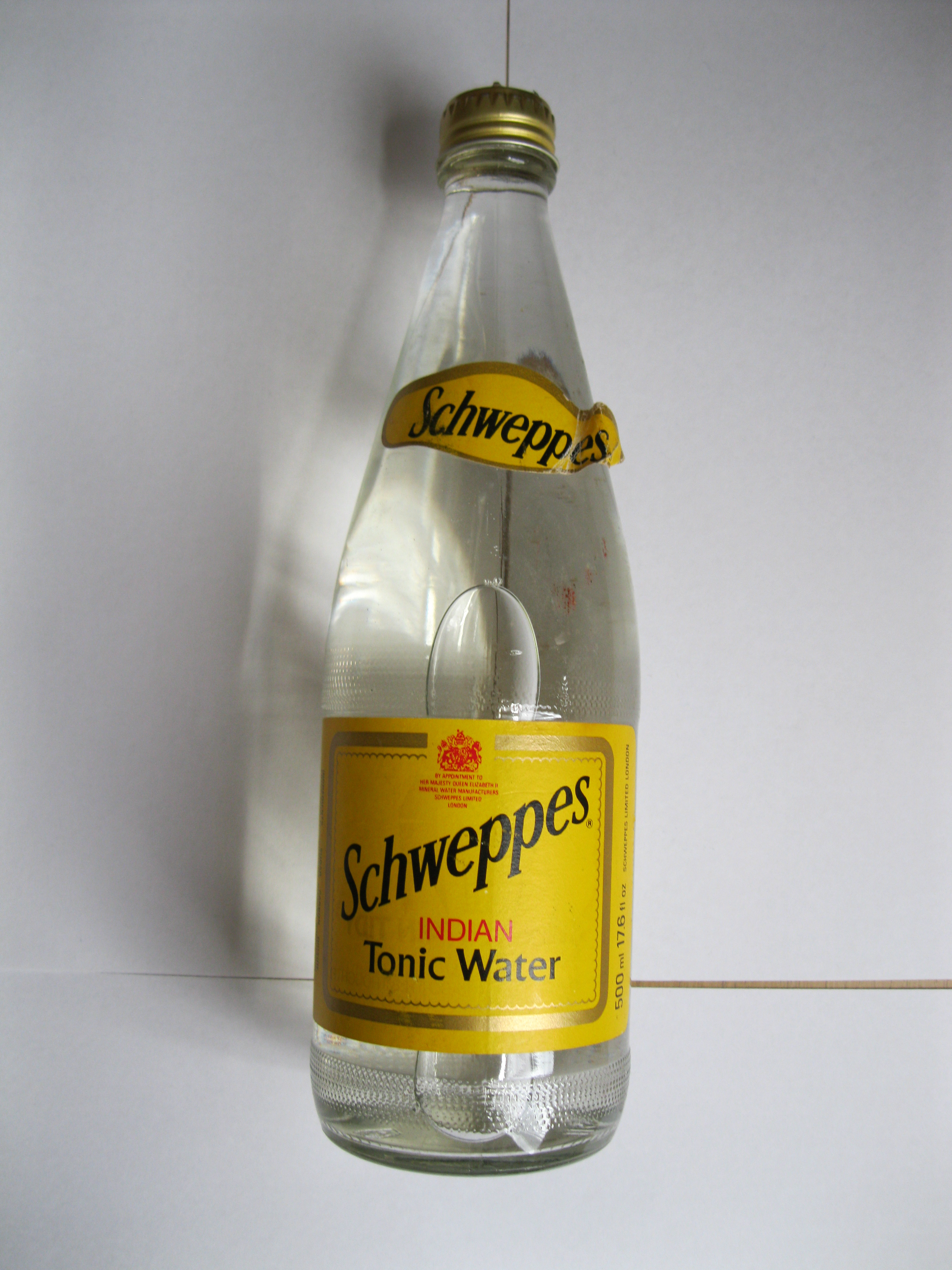 Front of an old Schweppes Indian Tonic Water bottle laying down. No idea of date